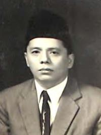 Portrait of Muhammad Isa Anshary as member of Constituent of Indonesia (1956—1959)